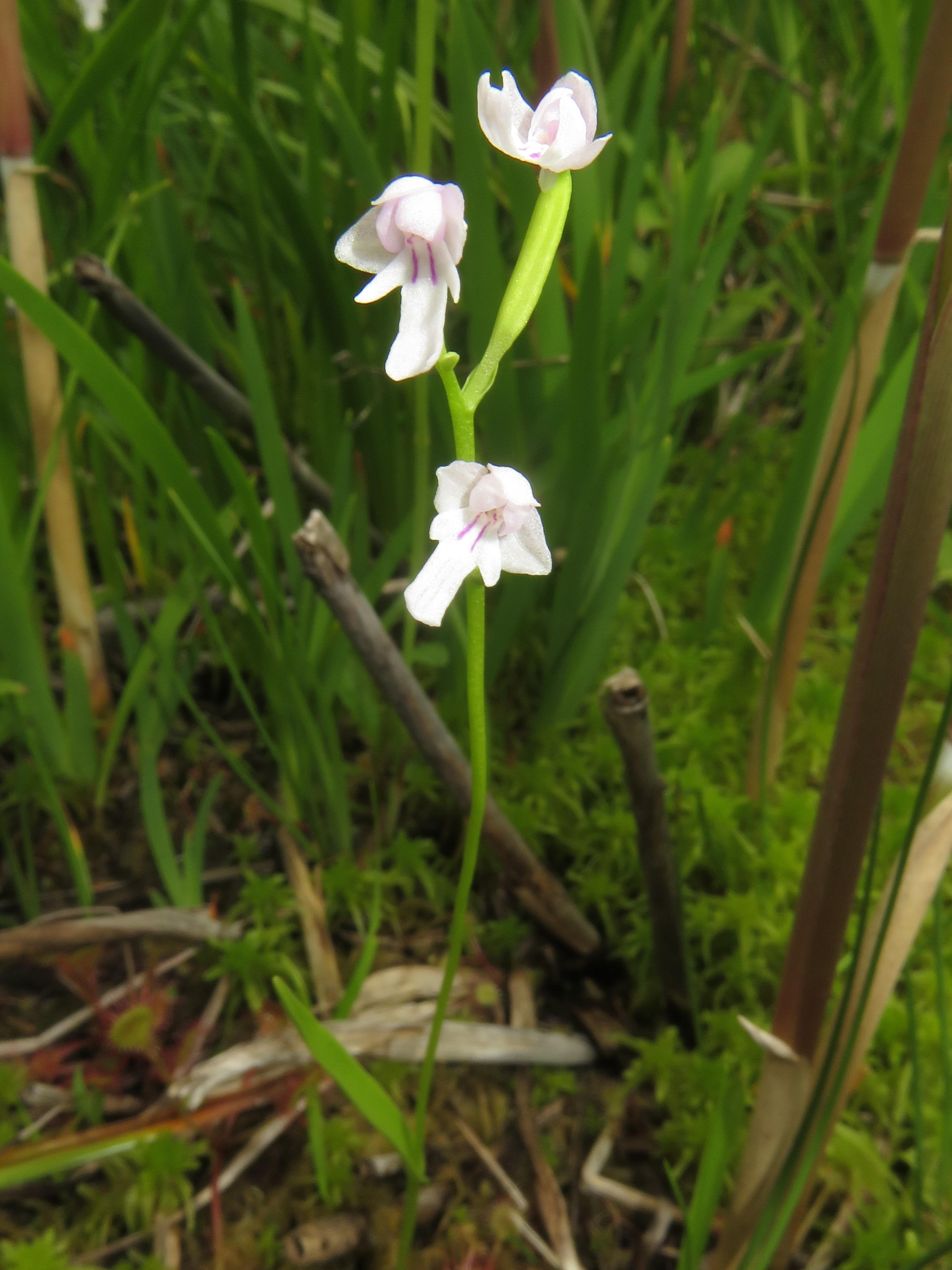 Amitostigma kinoshitae, Oze, Fukushima pref., Japan